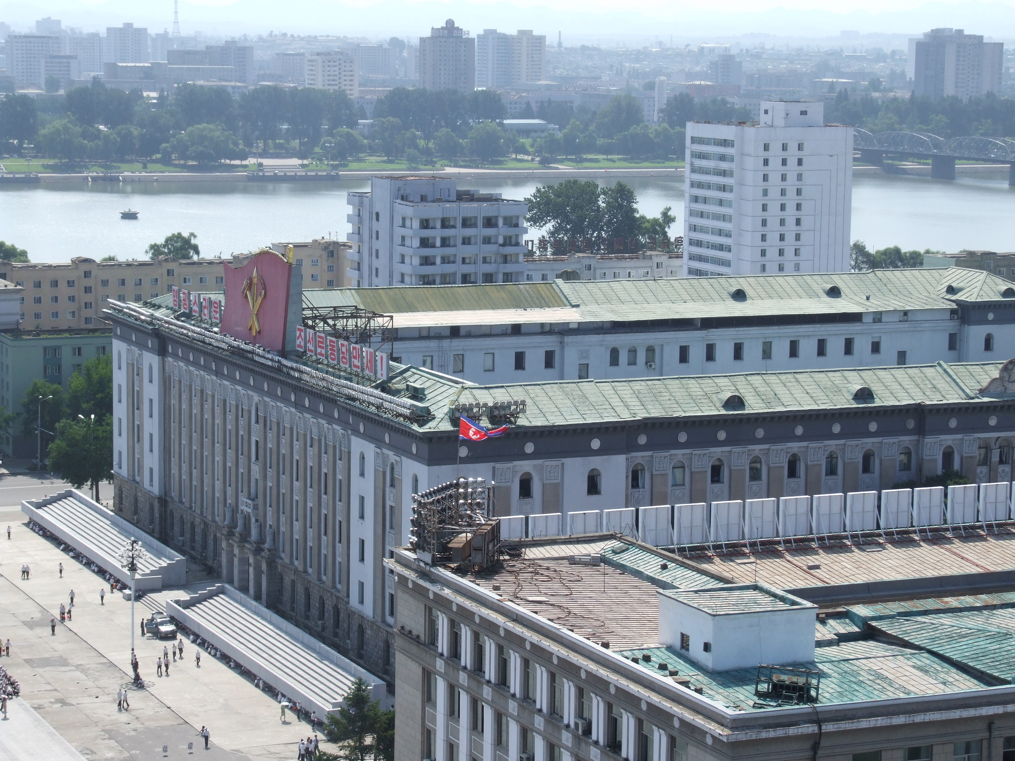 Ministry of Foreign Trade in Pyongyang